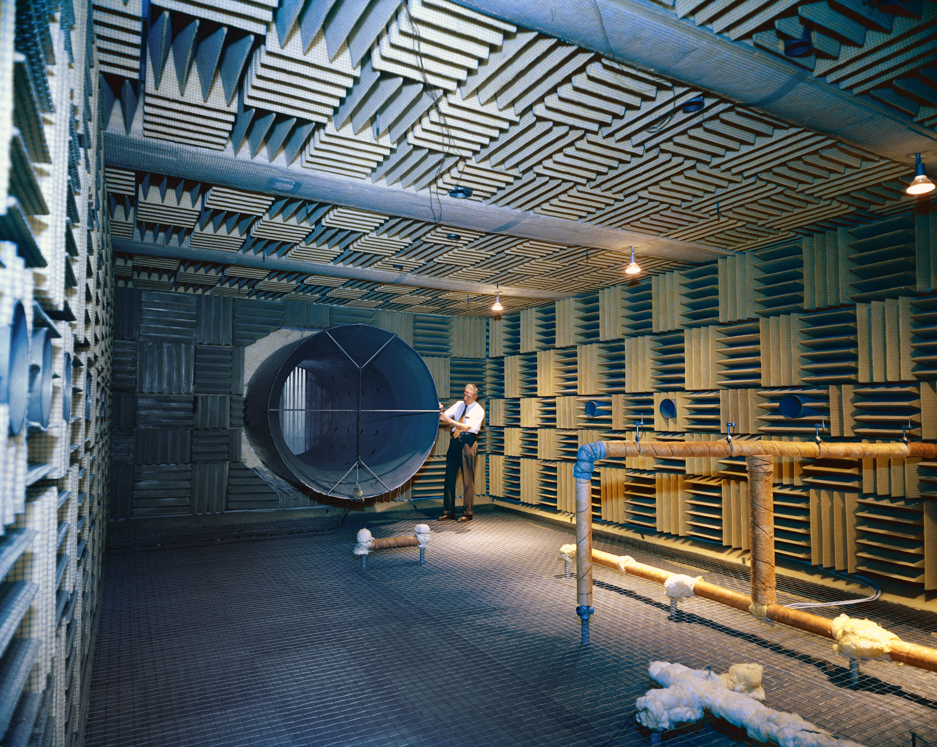 This aerodynamic noise facility, also called an anechoic chamber, was used to study the noise generating mechanisms in supersonic and subsonic jets in the early 1970s. It was in building 57 (which no longer exists) located next door to the wind tunnel that was in building 79 at the time. The large round opening in the wall is an exhaust silencer inlet. Standing next to it is Paul Massier, co-author of a technical report about this chamber. On the right is a support structure for microphones. Fiberglass wedge blocks cover the ceiling and walls, which were mostly reinforced concrete. Spaces were left open to allow for observation windows and instruments to record test data. There were also openings in the walls that allowed air to flow into the chamber to replace the air forced out during tests. Aug. 30, 1971 Requested by: P. Massier Photo by: J. Rayle